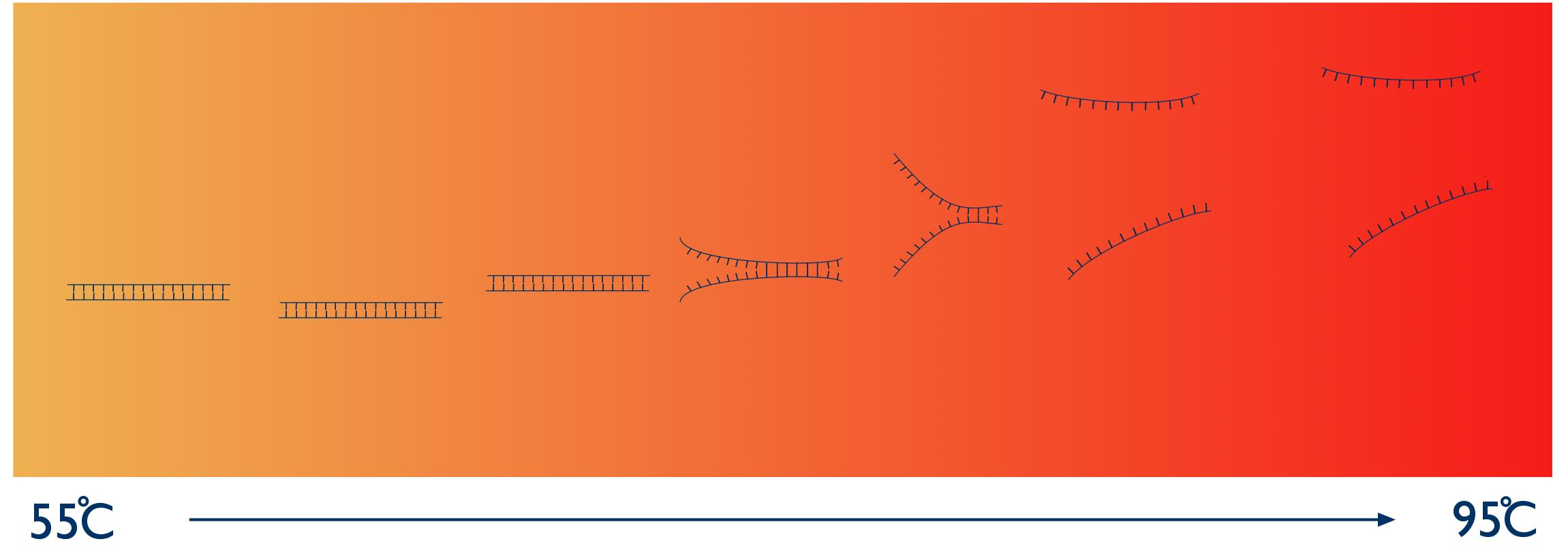 Cartoon illustrating the melting of a DNA amplicon